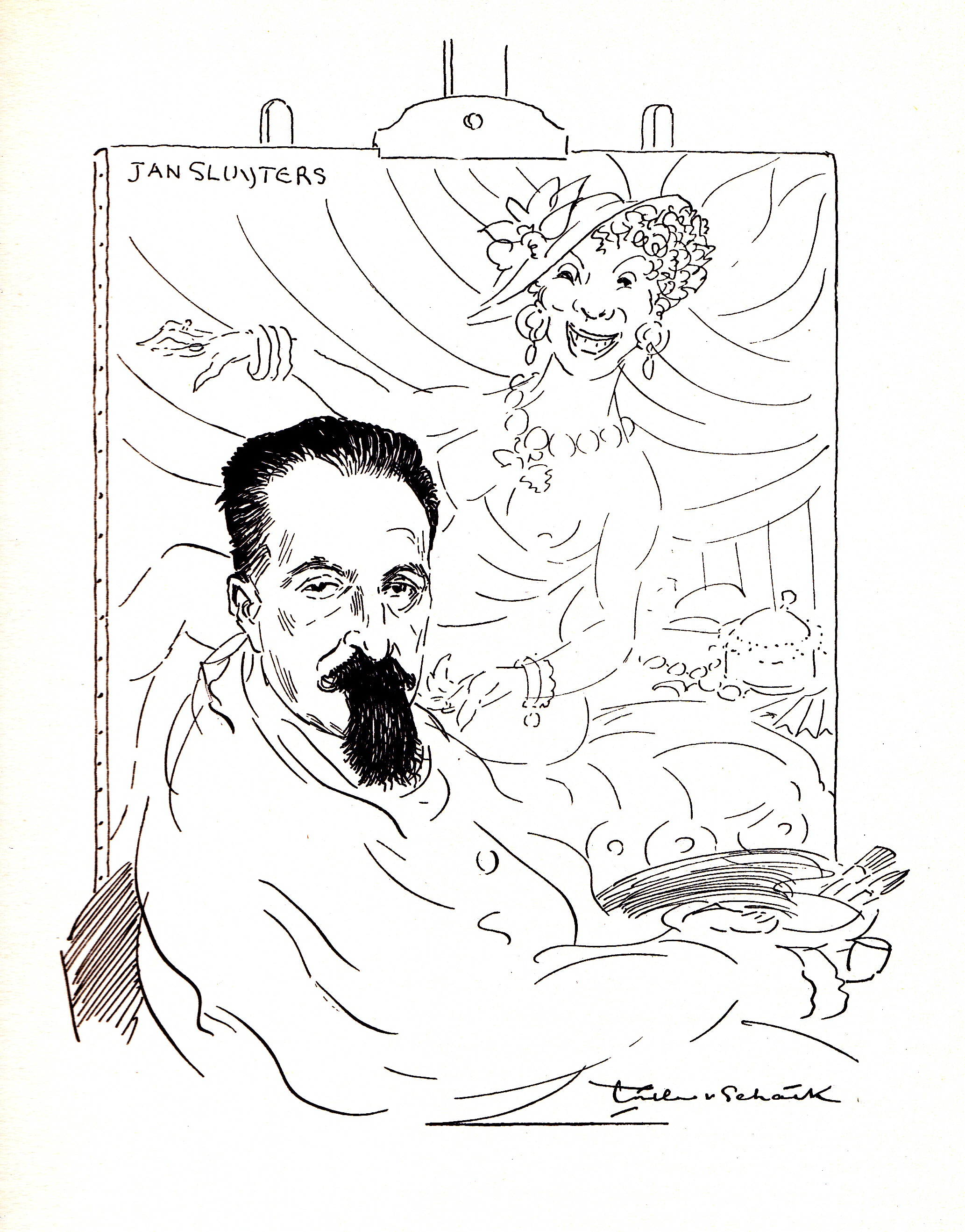 Jan Sluijters. Sketch drawn by Willem van Schaik (1876-1938)